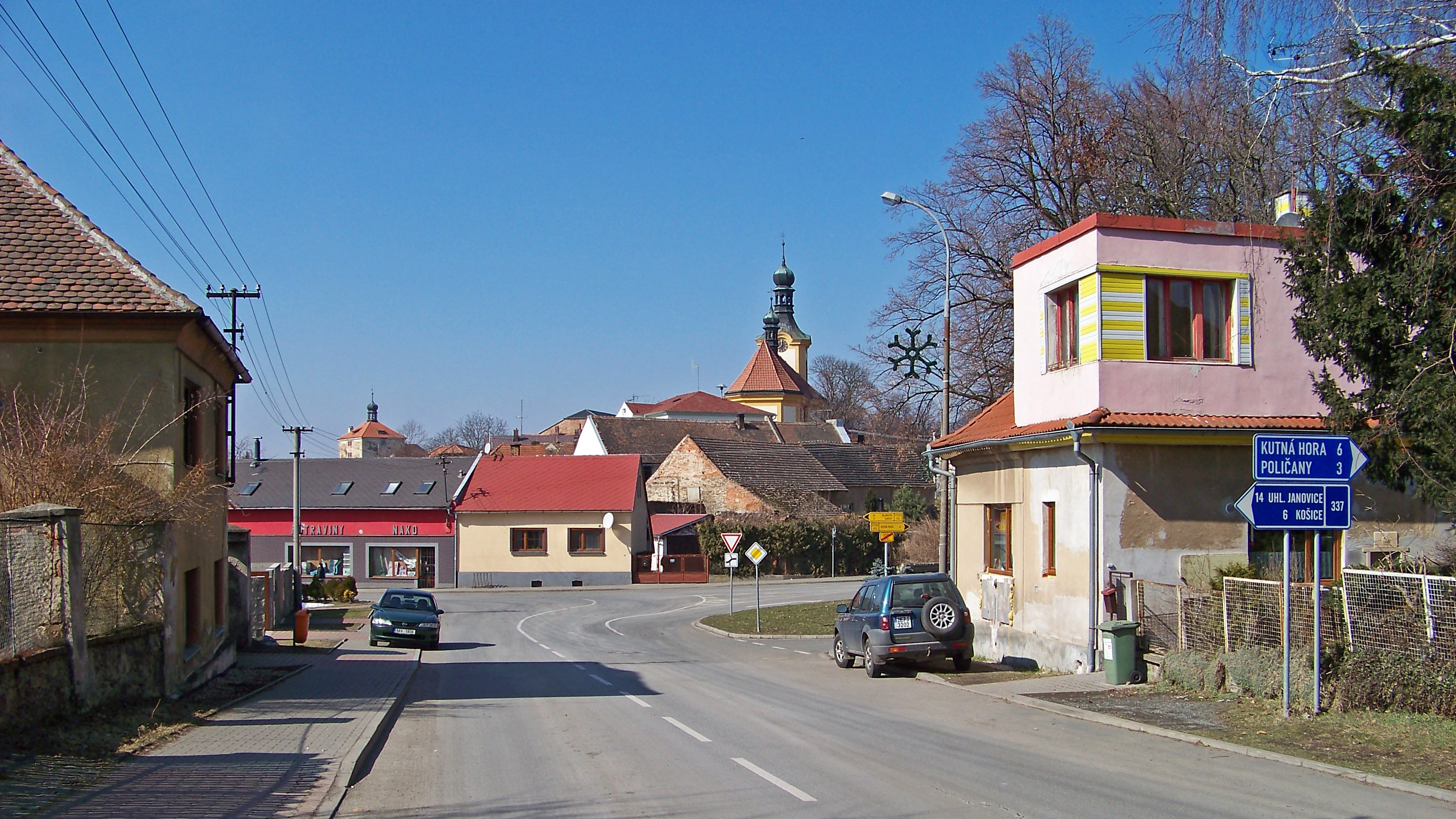 Malešov, Kutná Hora District, Central Bohemian Region, the Czech Republic. 5. května street, a view of the centrum.